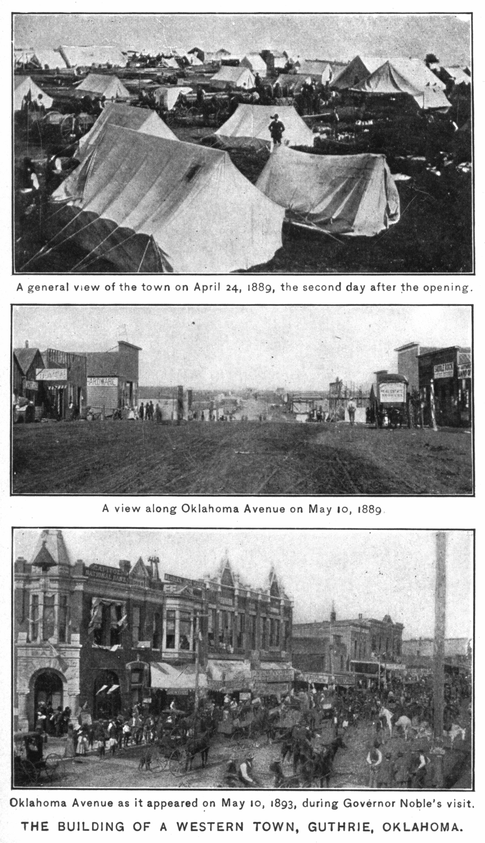 Guthrie, Oklahoma. April 24, 1889; May 10, 1889; and May 10 1893 during Governor's visit. Shows rapid development of the city.